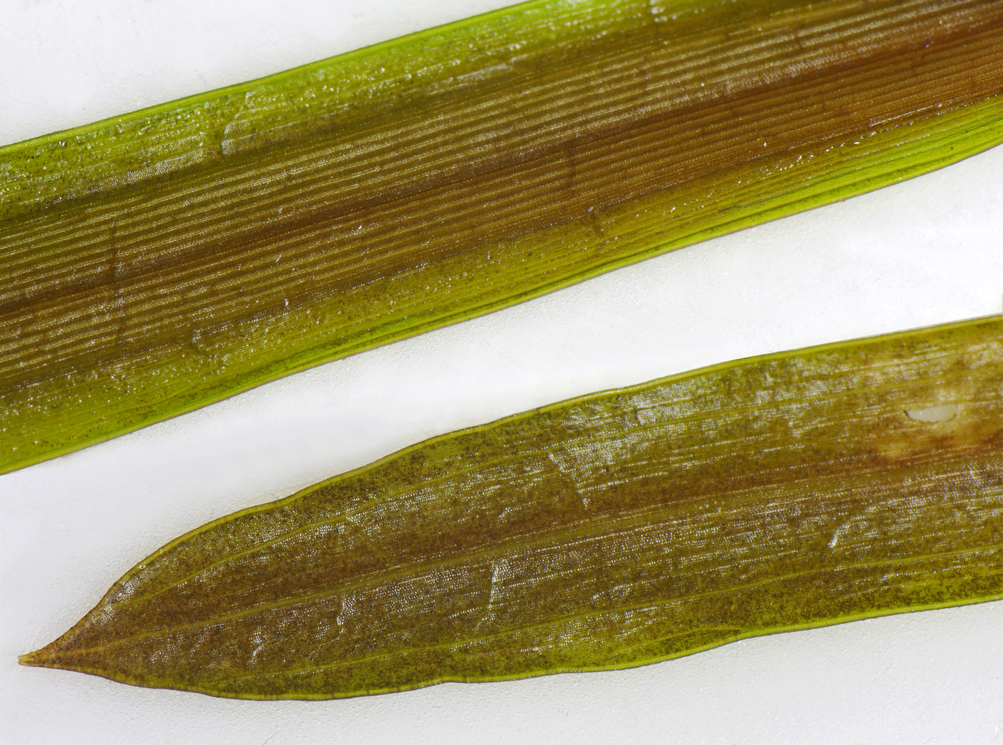 Close-up of leaves of the Sharp-leaved Pondweed (Potamogeton acutifolius). The leaves have a width of about 3–3.5 mm. (Magnification ratio of the 1:1 macro lens has been doubled by a 2×TC.)